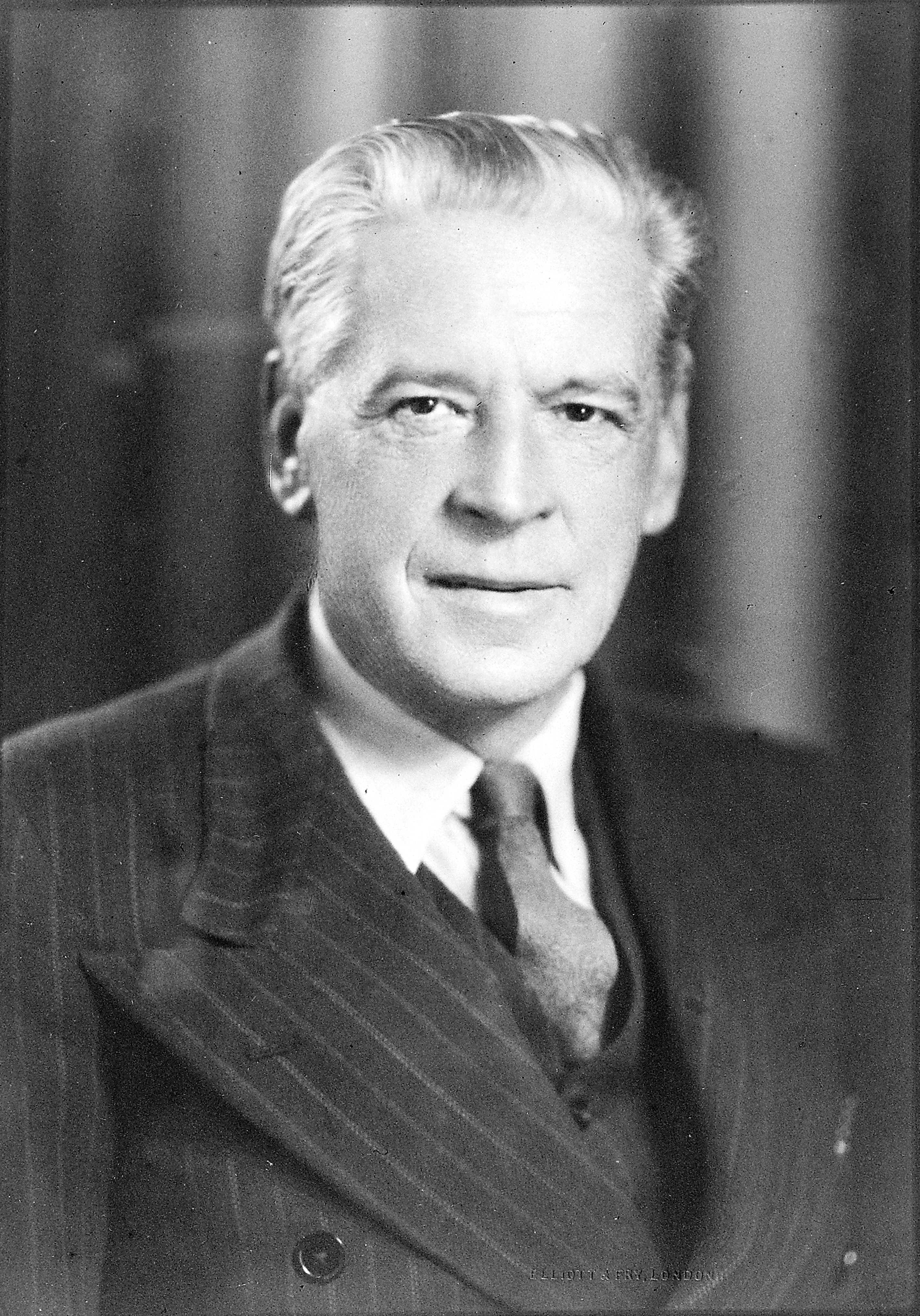 Portrait of Kenneth Macfarlane Walker, head and shoulders. Wellcome Images Keywords: Kenneth Macfarlane Walker